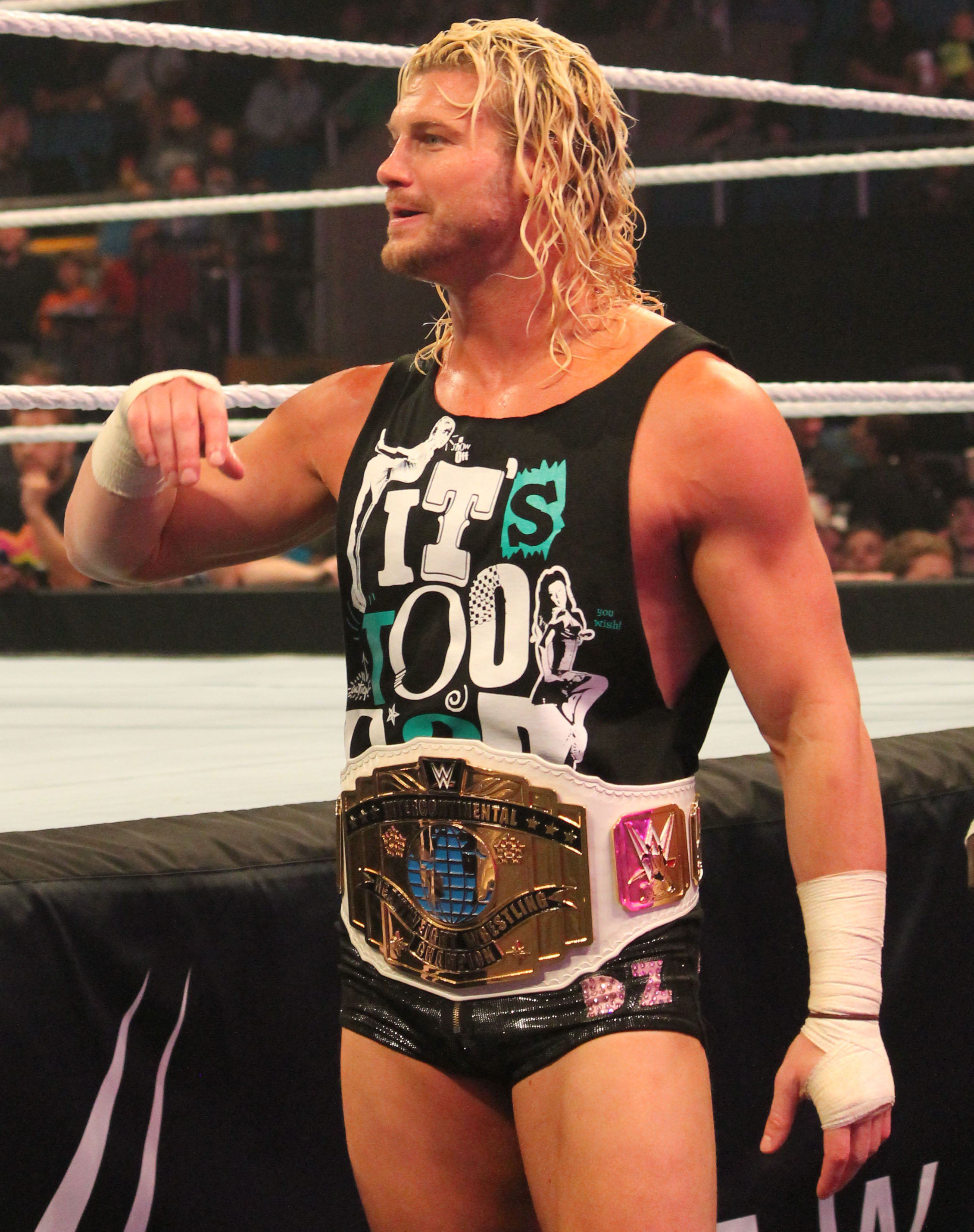 Dolph Ziggler, as the WWE Intercontinental Champion, at a WWE SmackDown television taping on September 16, 2014.